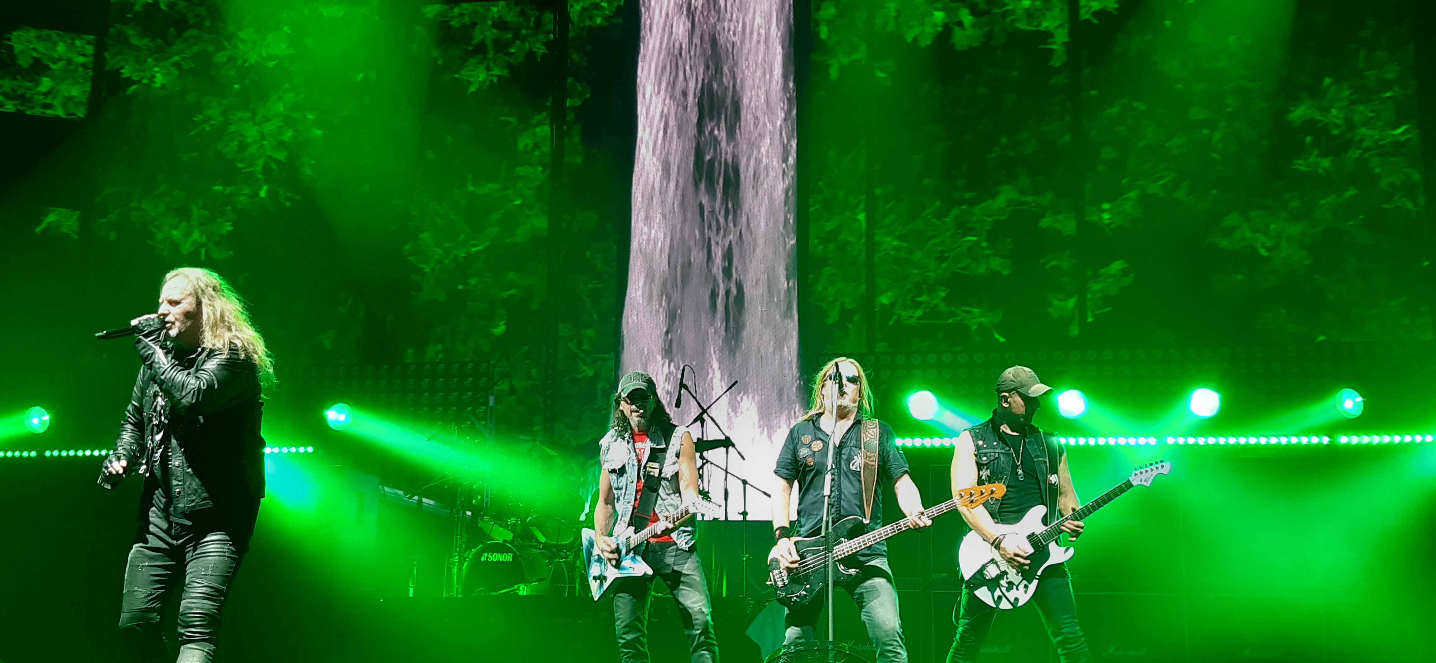 Czech rock band Kabát during a charity concert ina sold out arena O2 Universum.